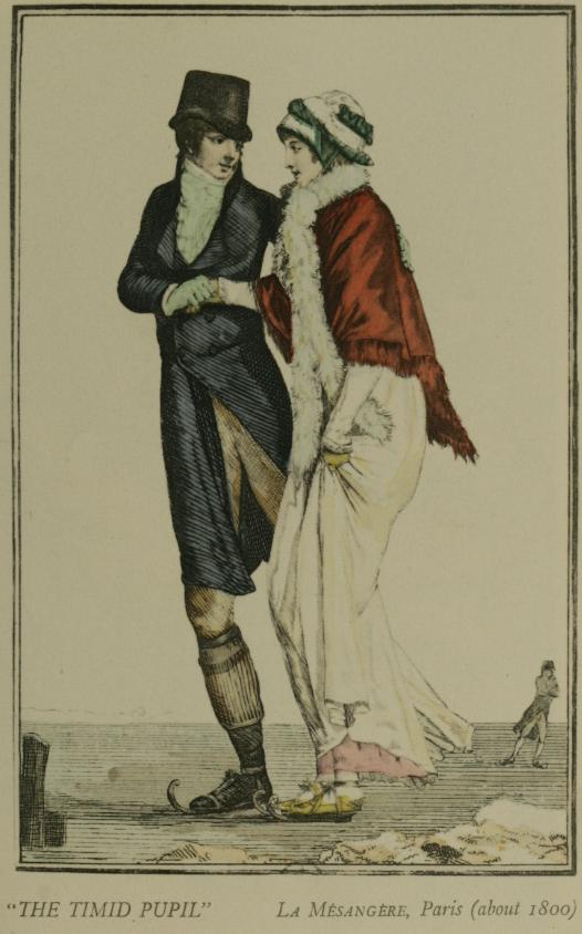 Illustration showing fashion throughout the centuries, as per the caption of the photo